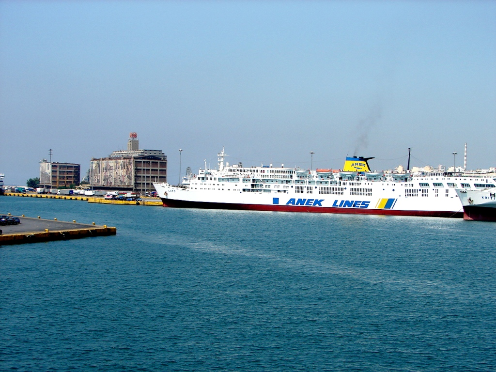 a@a pireas greece